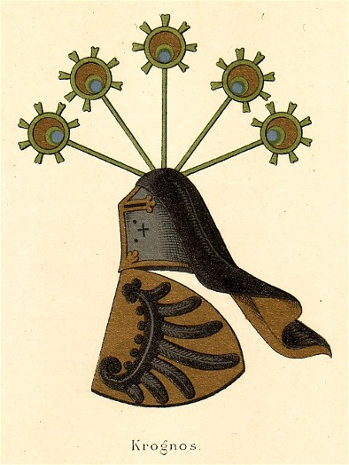 Coat of arms of the Krognos family